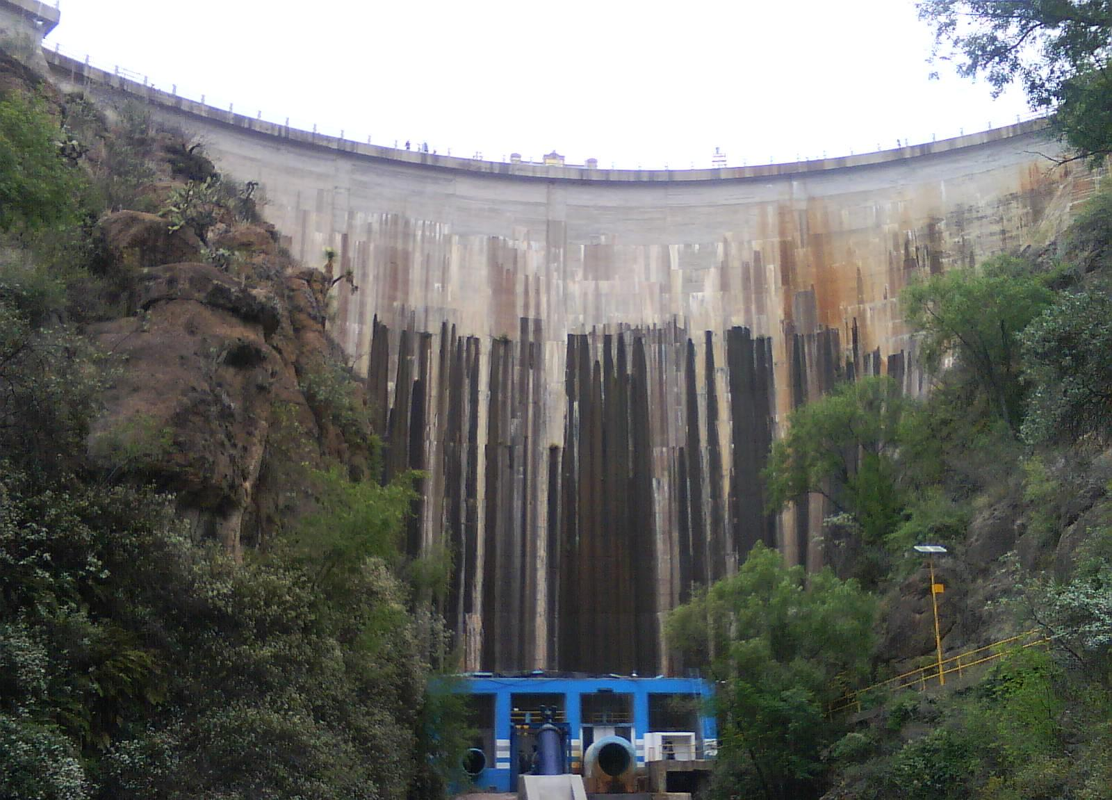 The gate of the dam Plutarco Elias Calles in San Jose de Gracia